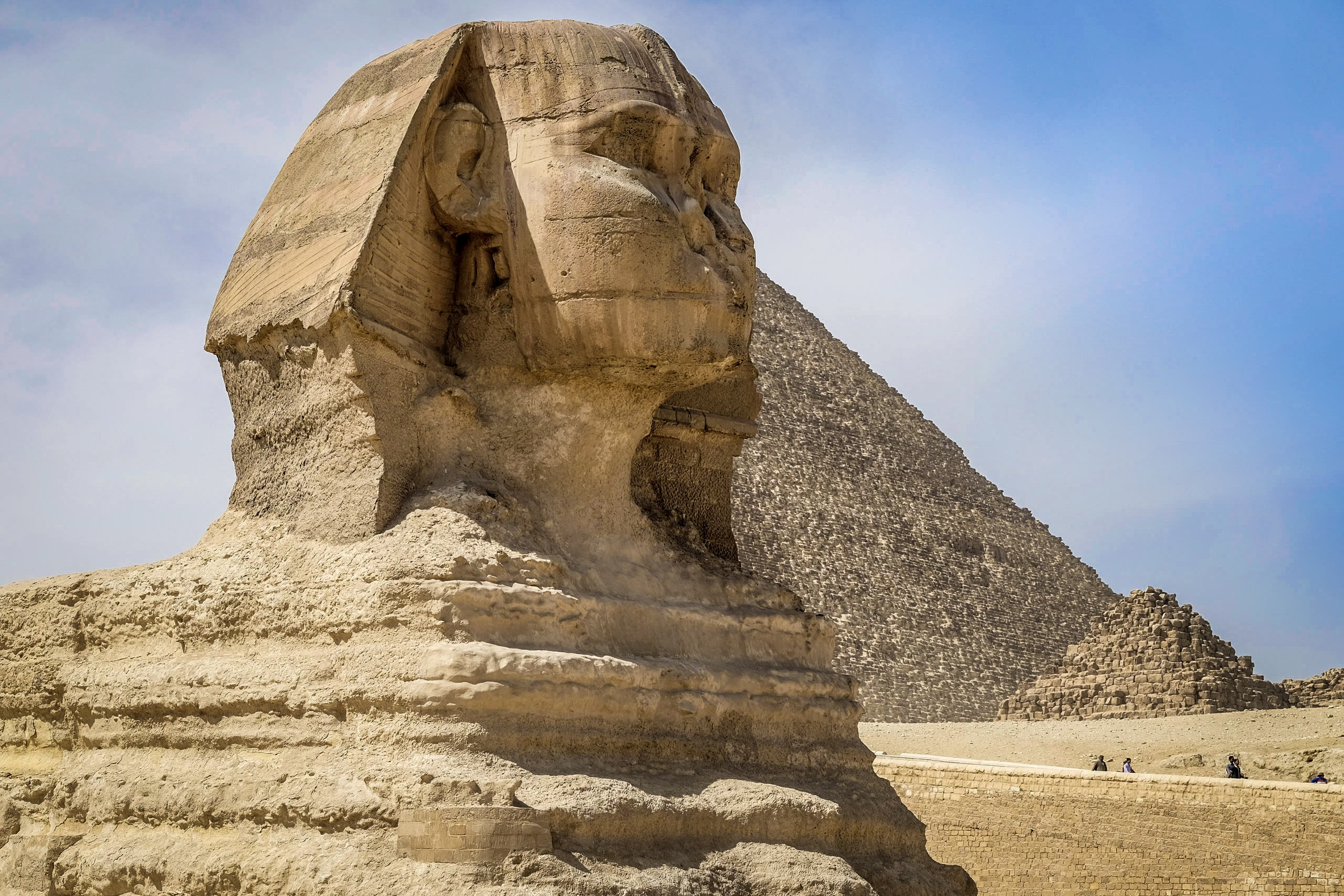 The Sphinx